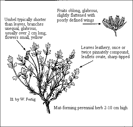 Larimer Aletes Aletes humilis